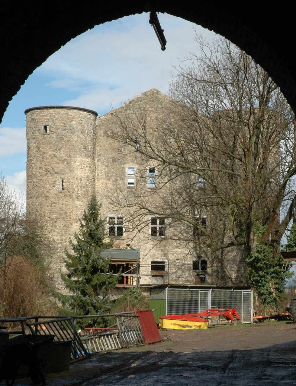 Castle of Nothberg in Eschweiler, Germany, south-western front